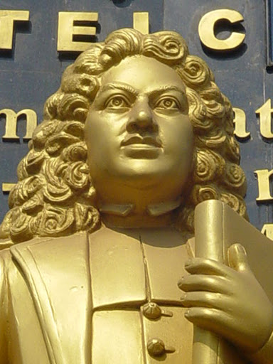 Bartholomäus Ziegenbalg monument in Tranquebar, Tamil Nadu, South India.